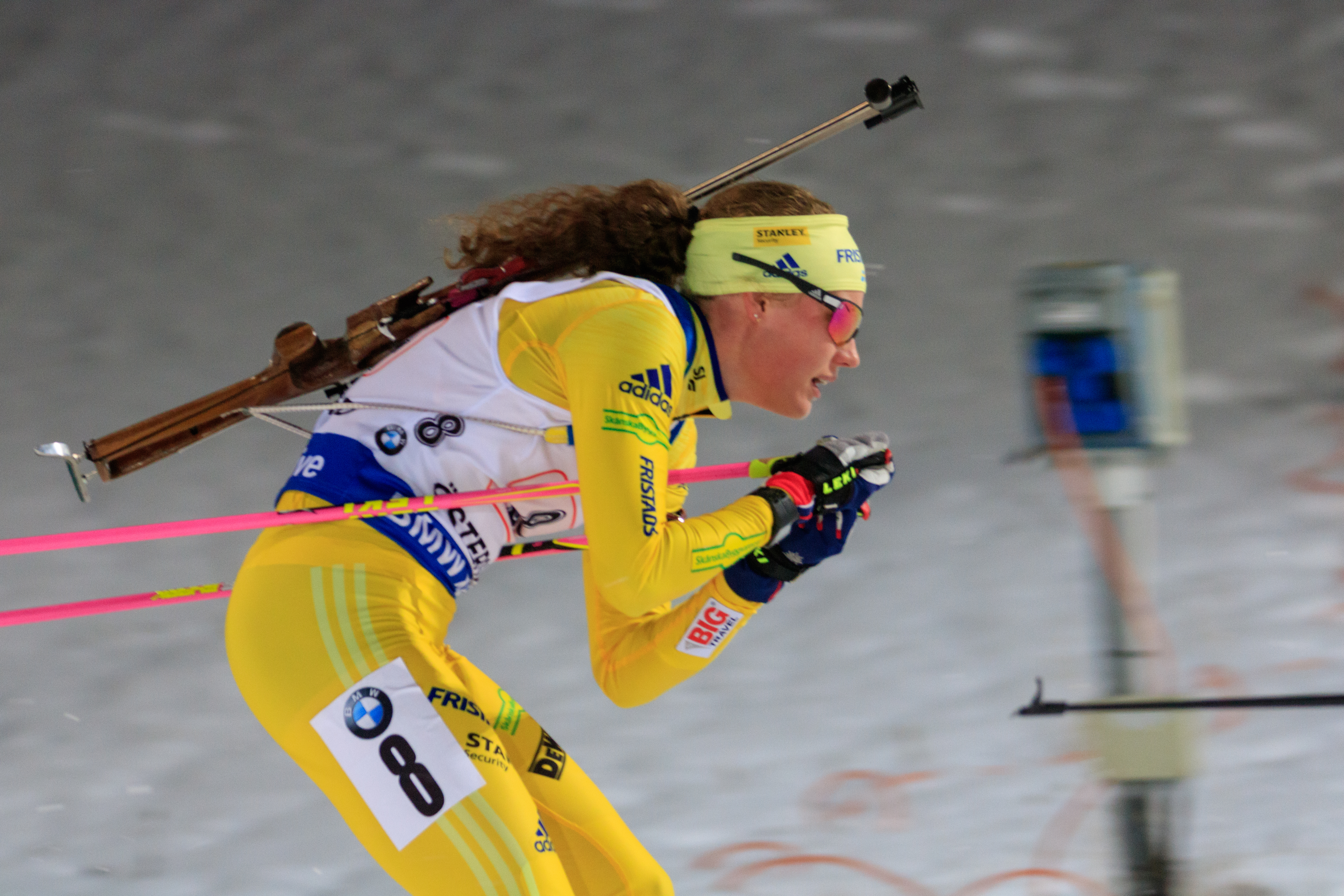 Swedish biahtlet Hanna Öberg in Östersund